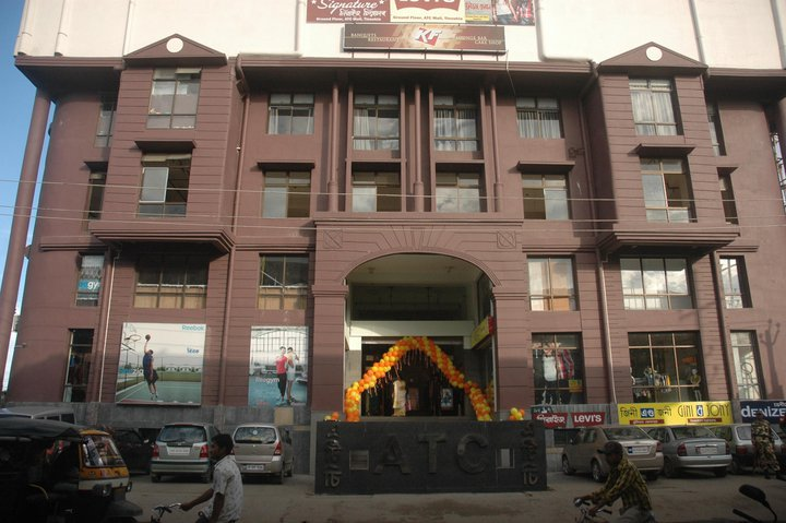 Front view of ATC Mall, Tinsukia